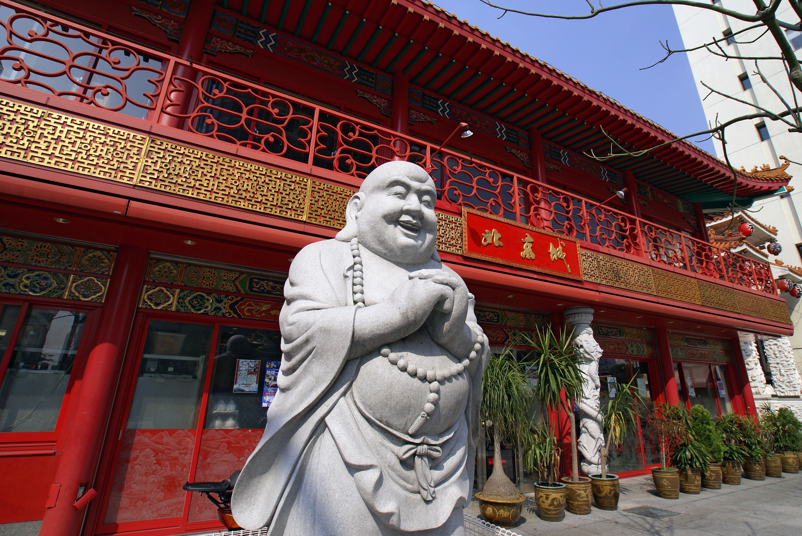 China Town "Nankinmachi" in Kobe, Hyogo prefecture, Japan